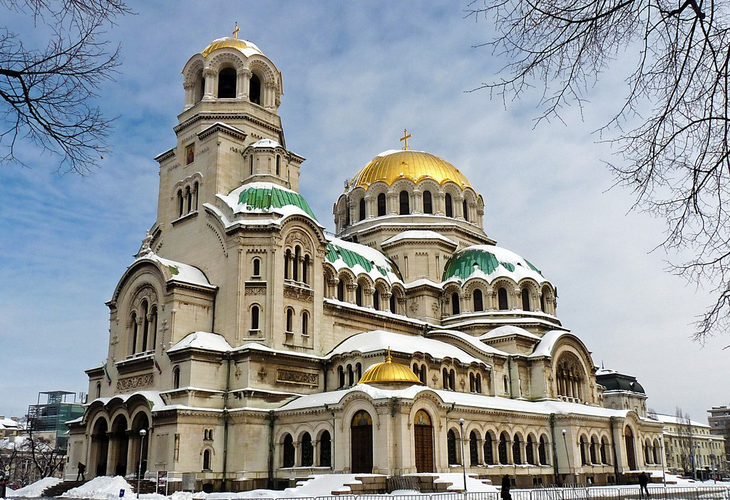 Alexander Nevsky Cathedral, Sofia